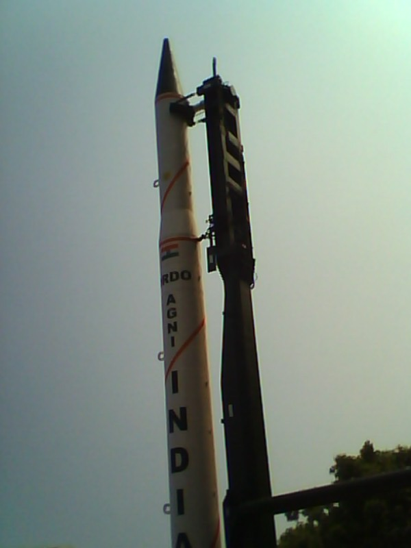 Indian Army Exhibiting the armour of Mother India at DRDO (DEFENCE RESEARCH & DEVELOPMENT ORGANISATION)